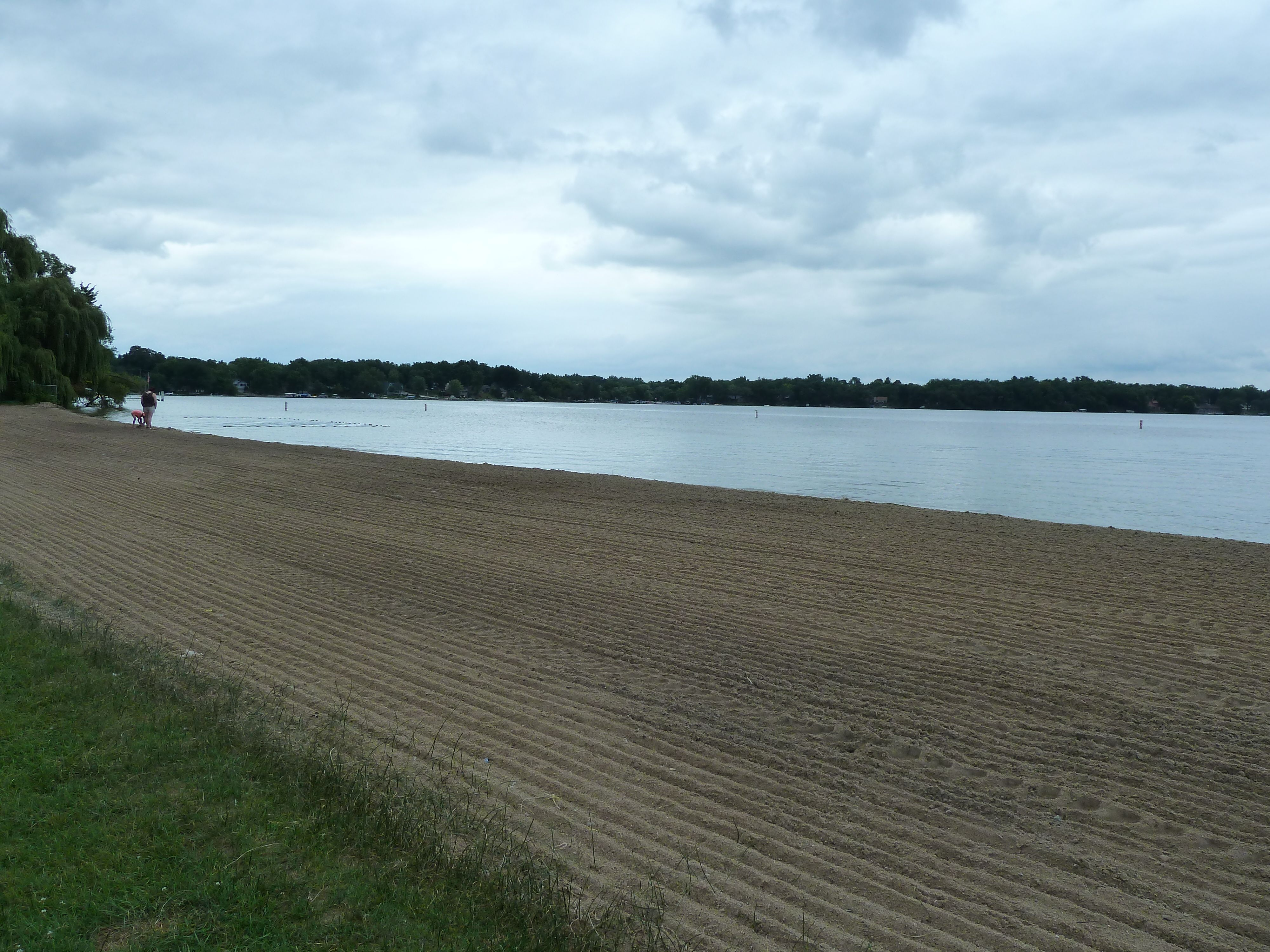 Beautiful view of Lake Ripley.